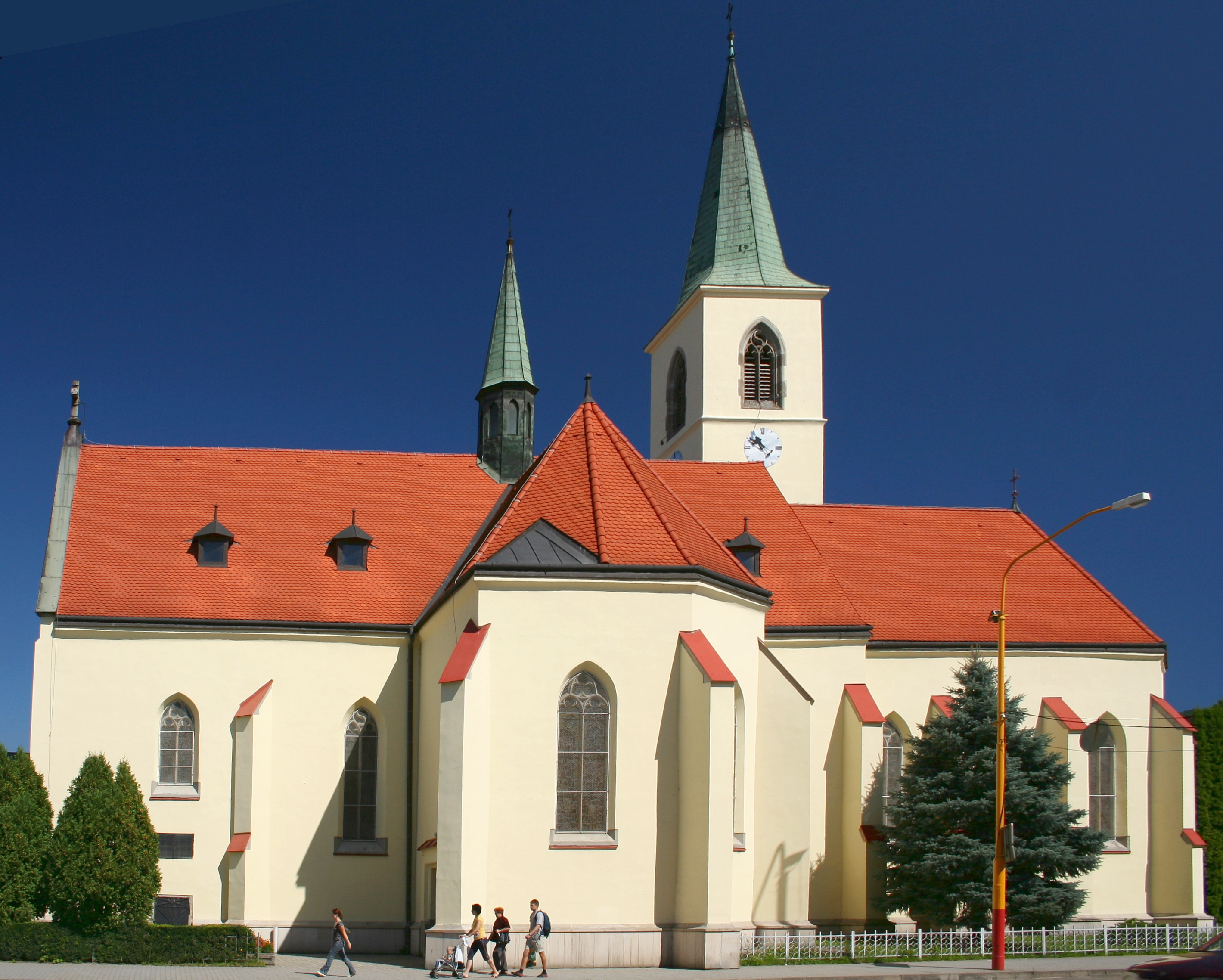 church in Humenné, Slovakia